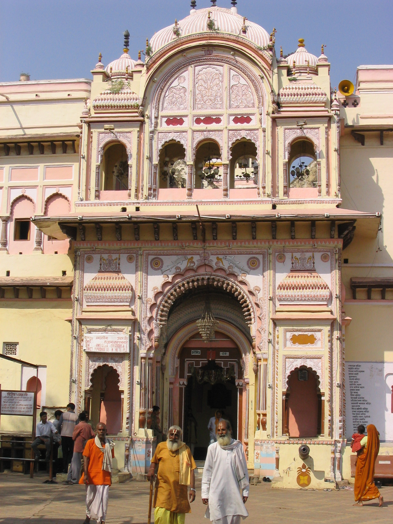 Orchha (or Urchha) is a small village in Tikamgarh district of Madhya Pradesh state, India. Orchha lies on the Betwa River, 15 km. from Jhansi in Uttar Pradesh.